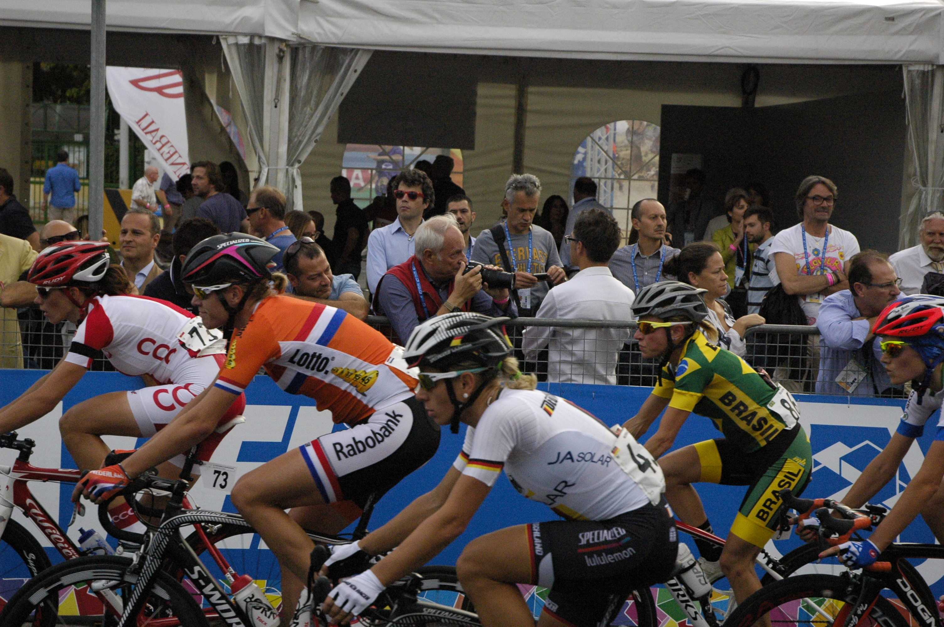 2013 UCI Road World Championships – Women's road race Ellen van Dijk (orange) and Trixi Worrack (white) Eugenia Bujak (white/red) Flavia Oliveira (yellow/green)